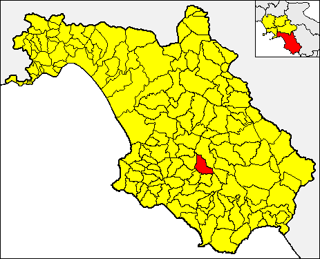 Locator map of the municipality of Campora (red) within the Province of Salerno